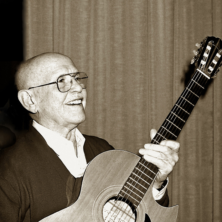 Roberto Murolo portrait - Augusto De Luca photo